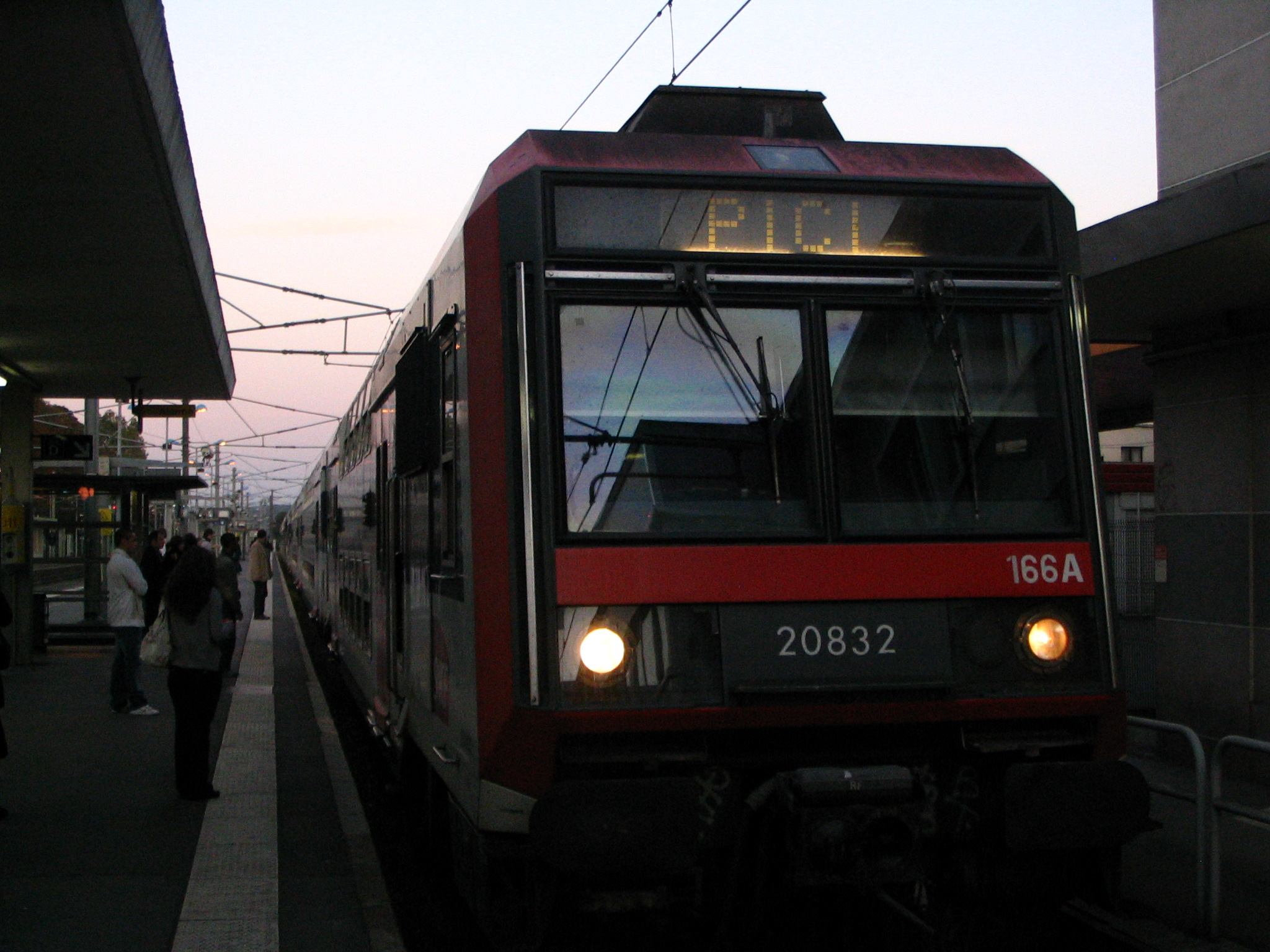 Lagny-Thorigny train station, in Thorigny-sur-Marne, Seine-et-Marne, France.